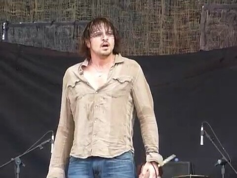 Rick at the 2012 Rock Fest.